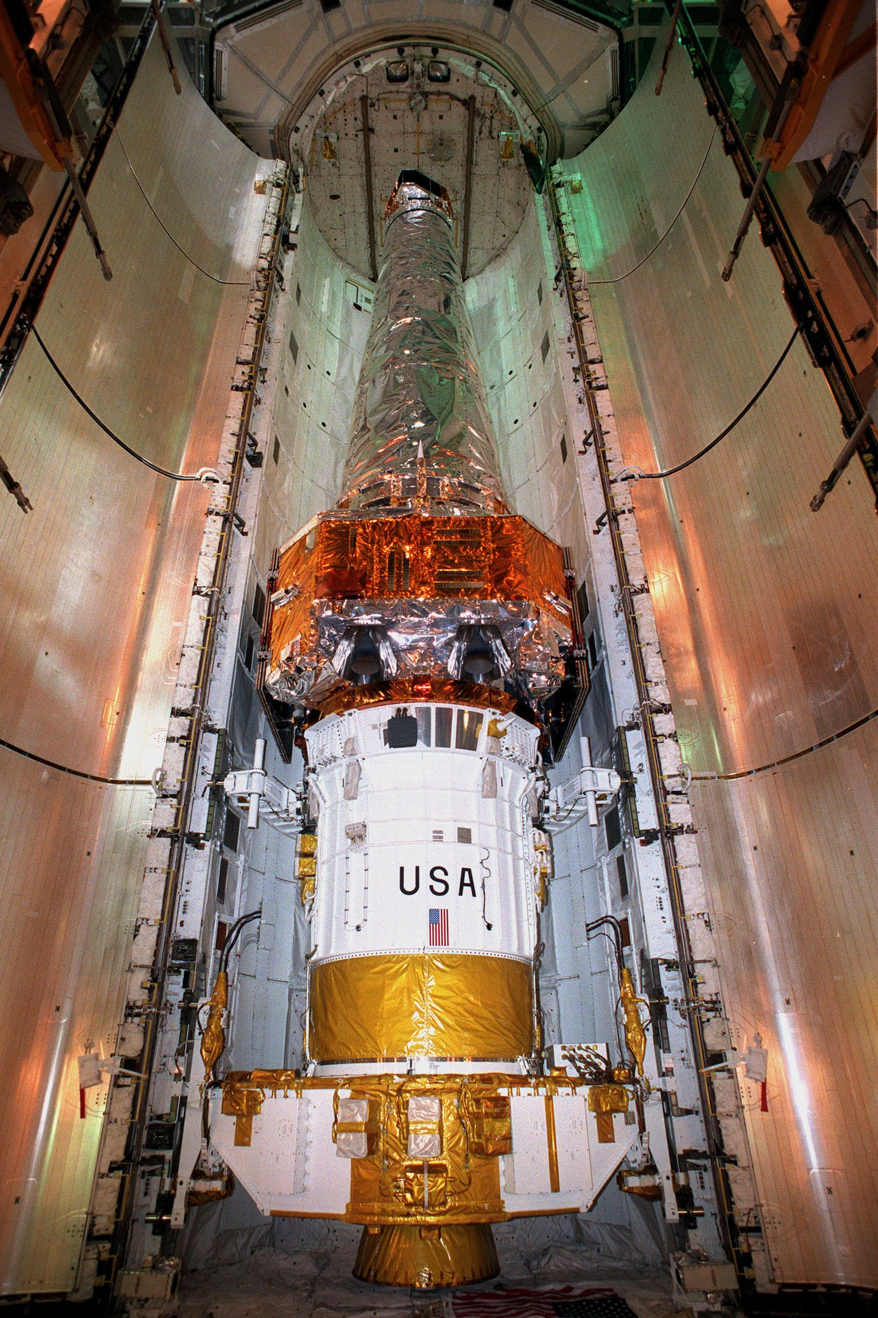 At Launch Pad 39-B, the Chandra X-ray Observatory sits inside the payload bay of Space Shuttle Columbia, waiting for the doors to close. Chandra is the primary payload on mission STS-93, scheduled to launch aboard Columbia July 20 at 12:36 a.m. EDT. The combined Chandra/Inertial Upper Stage, seen here, measures 57 feet long and weighs 50,162 pounds. Fully deployed with solar arrays extended, the observatory measures 45.3 feet long and 64 feet wide. The world's most powerful X-ray telescope, Chandra will allow scientists from around the world to see previously invisible black holes and high-temperature gas clouds, giving the observatory the potential to rewrite the books on the structure and evolution of our universe